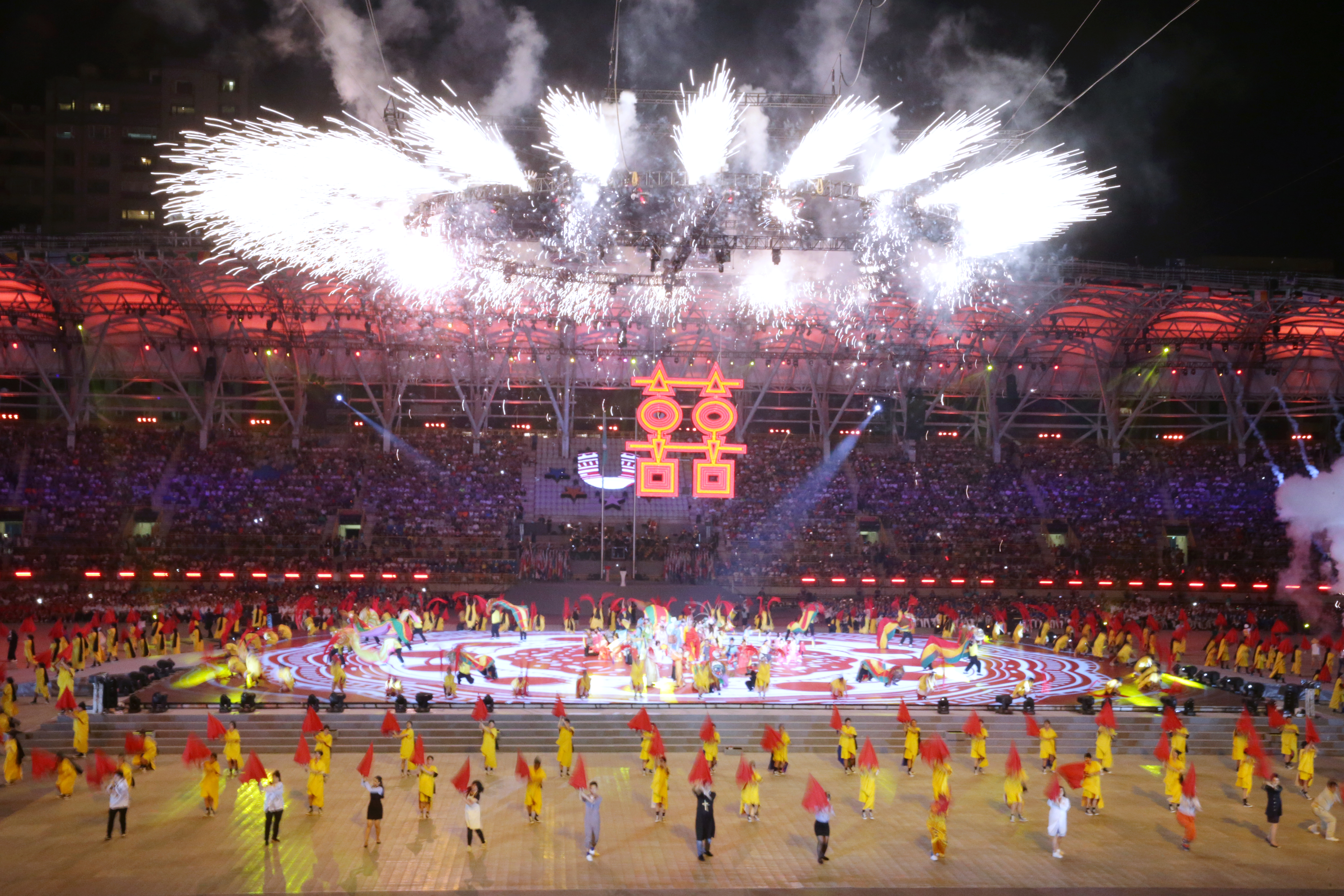 授權方式及範圍：中華民國總統府│政府網站資料開放宣告 Authorization Method & Scope: Office of the President, Republic of China (Taiwan) | Government Website Open Information Announcement 08.19 2017年世界大學運動會開幕典禮表演節目